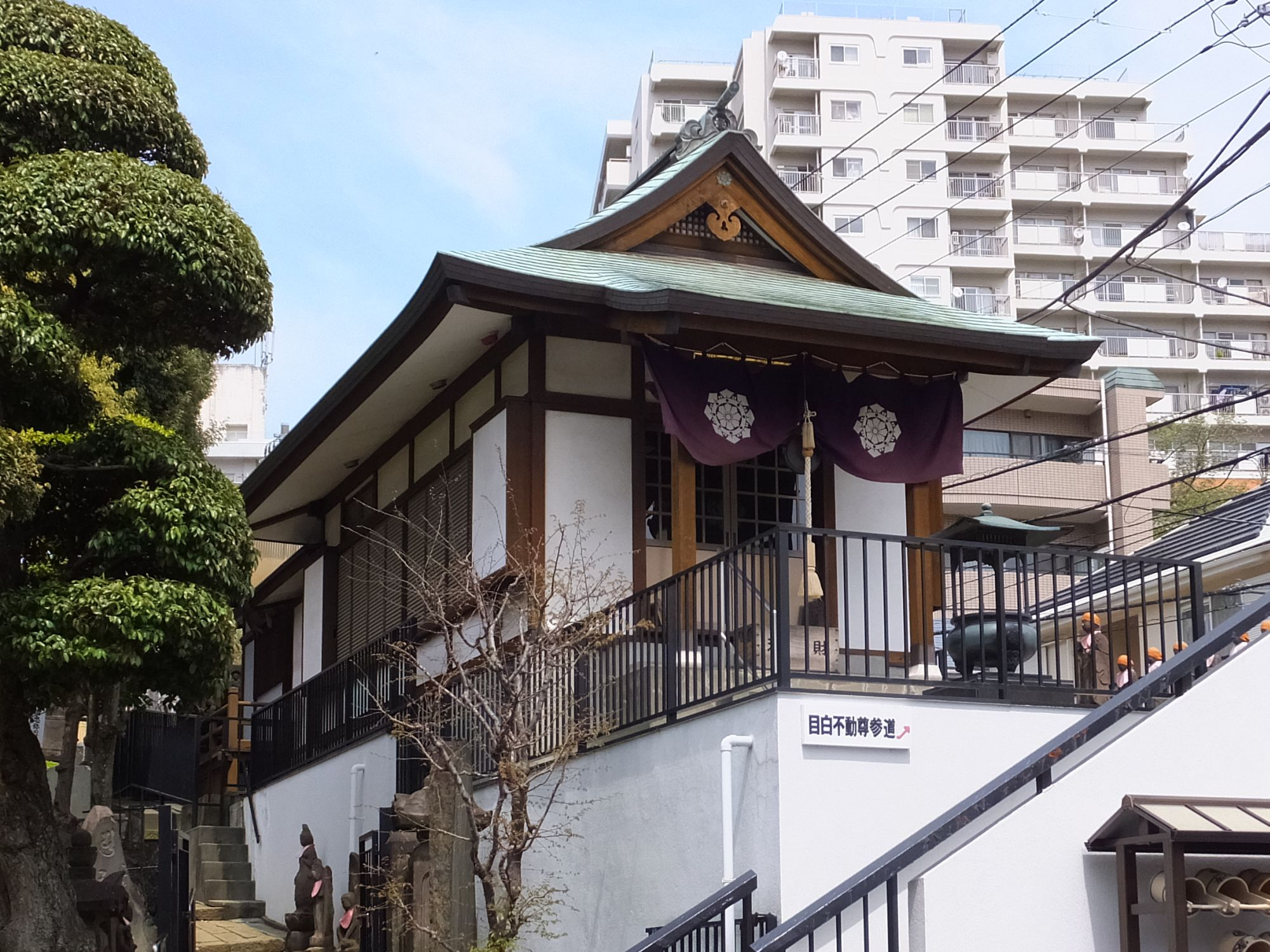 Mejiro Fudō-son at Konjō-in temple in Toshima, Tokyo